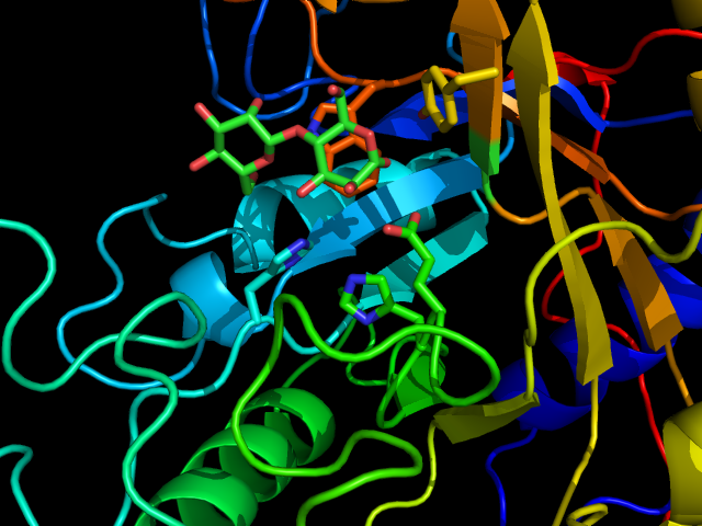 Crystal structure showing the active site of a mannosynthase PDB entry 1ODZ